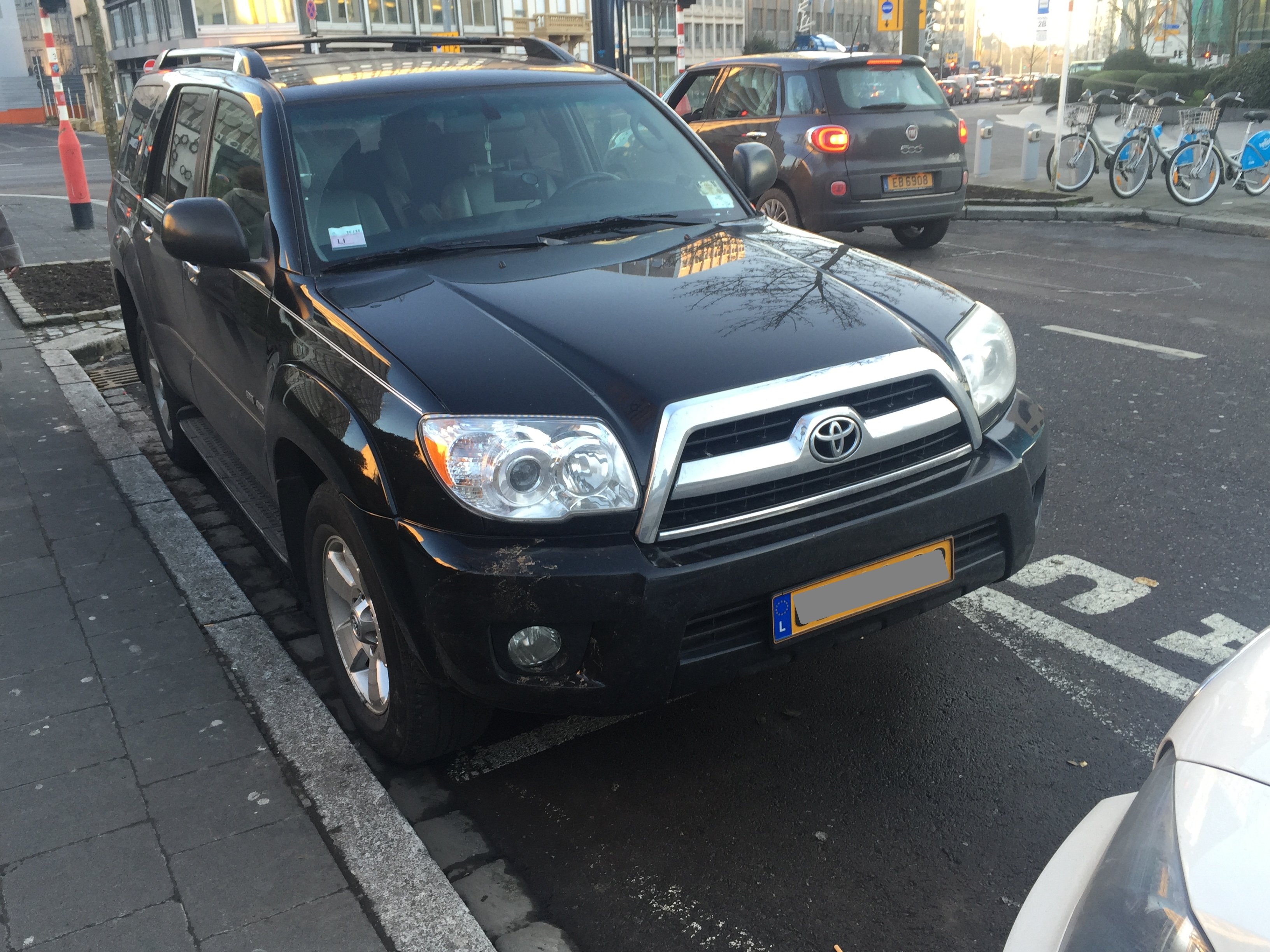 Toyota 4Runner N210 Facelifted, wearing Luxembourguish plates (L), Europe